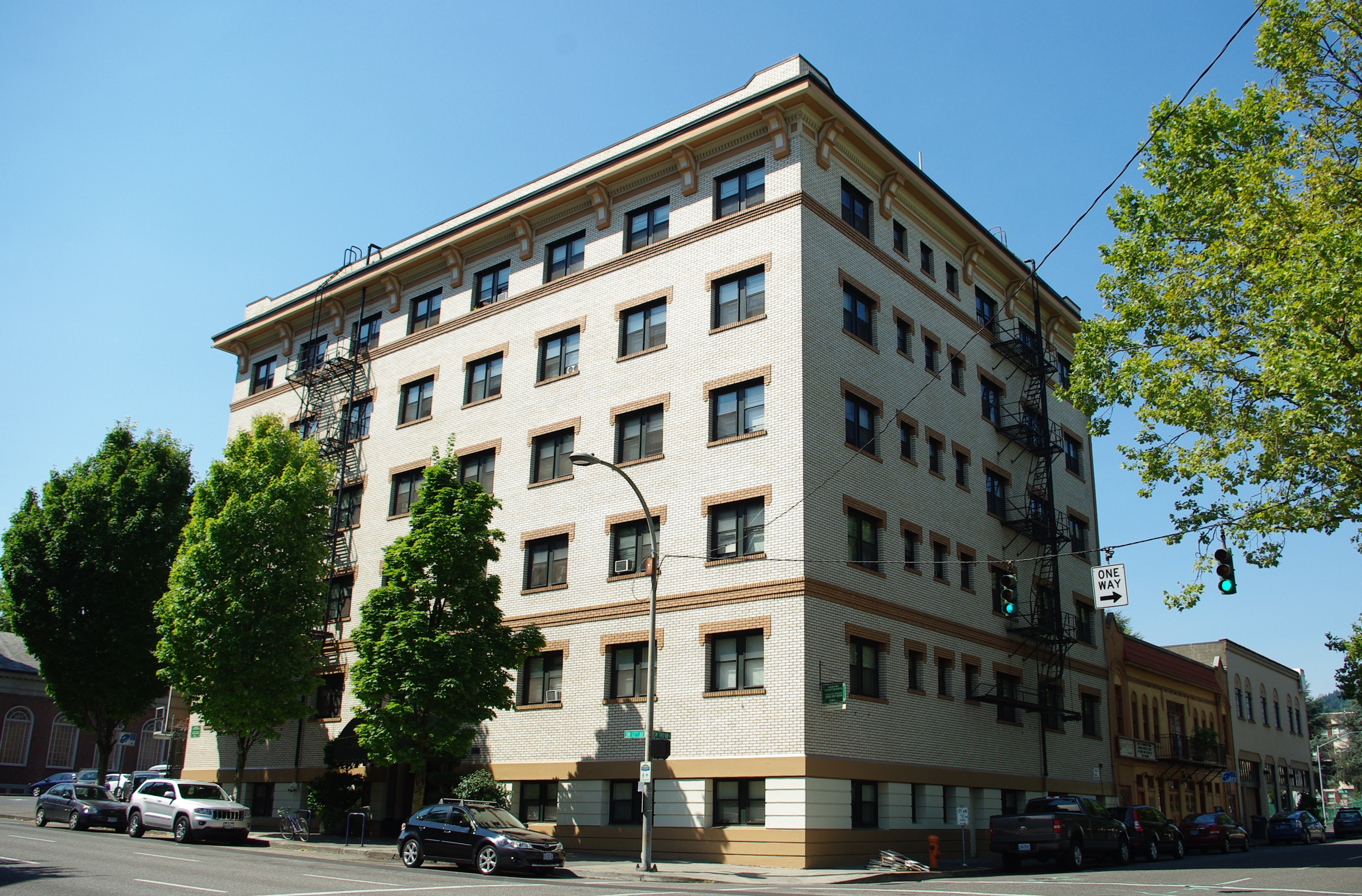 The Gentry at 909 SW 12th Avenue in Portland, Oregon. Listed on the NRHP as the Villa St. Clara Apartments.